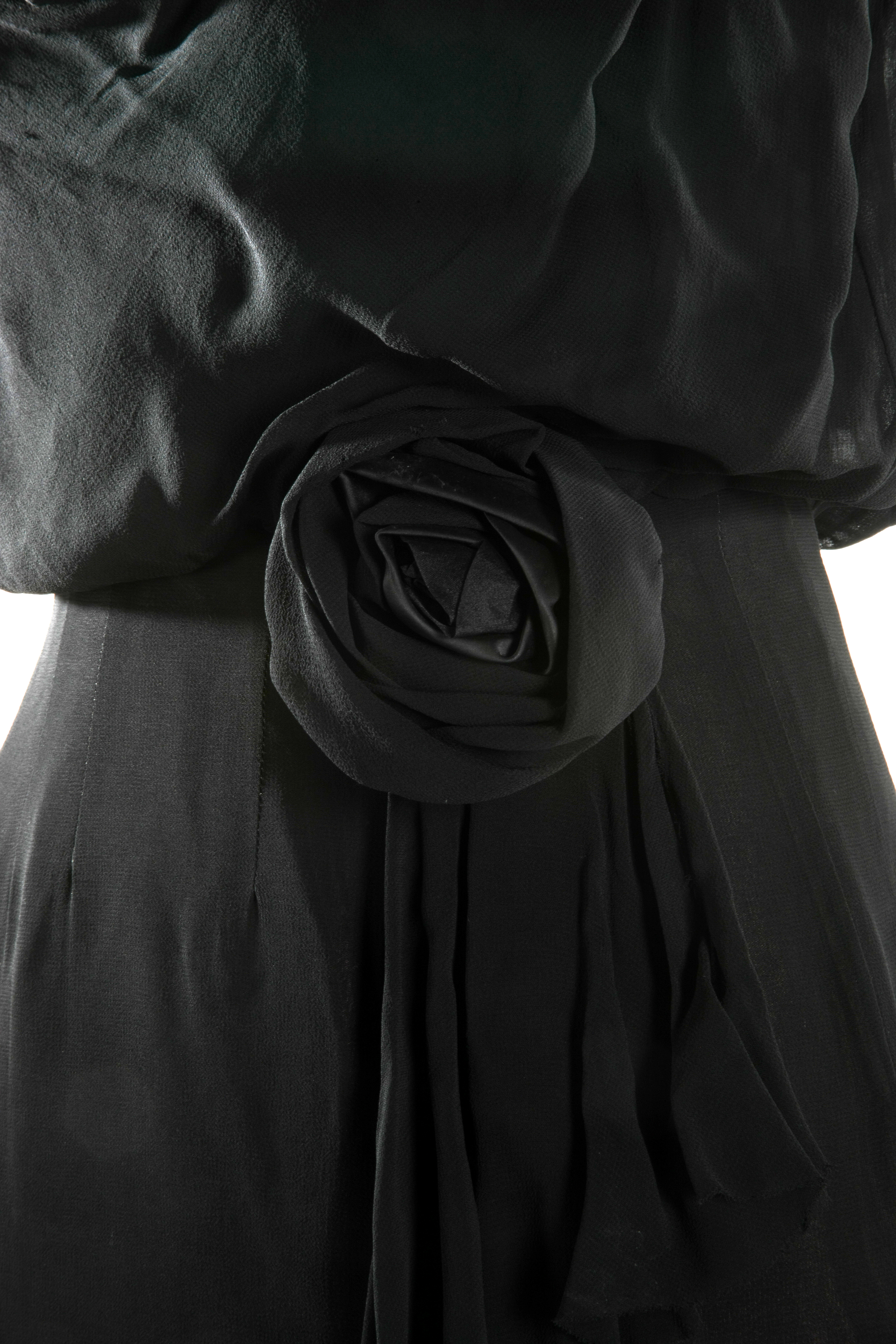 Black silk chiffon dinner dress by Emma Knuckey with black silk lining, low cowl neckline andhand-made rose trim at waist